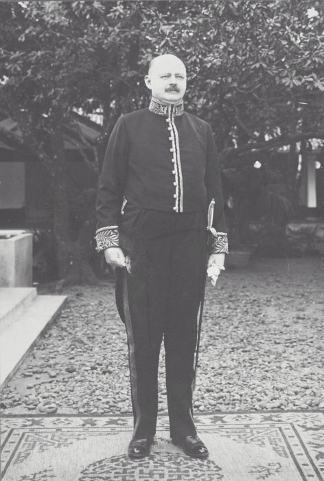 Portrait of L.F. Dingemans at the Resident's house in Kediri on Queen's Day